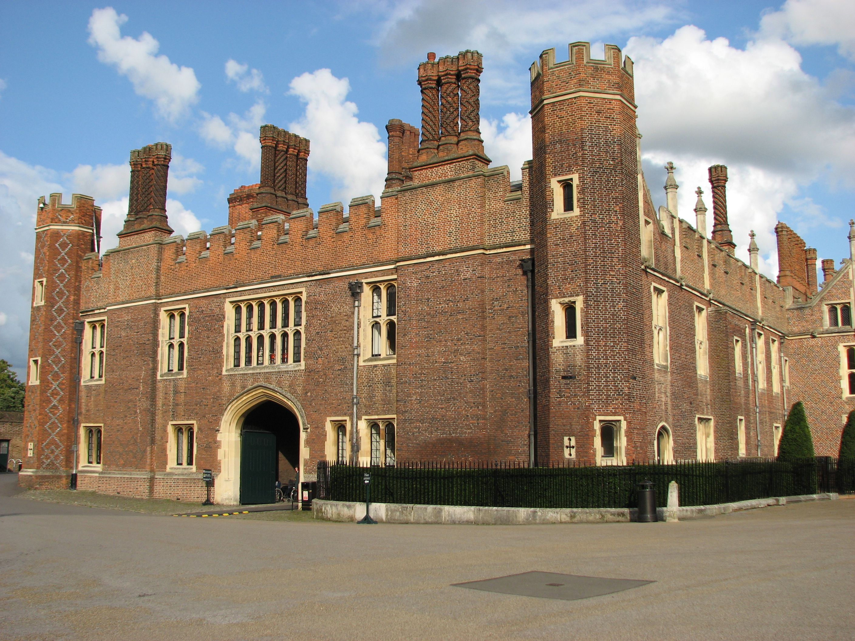 London - September 2008